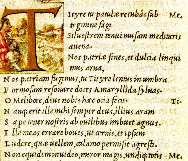 1501 edition of Virgil (Vergil) printed by Aldus Manutius.